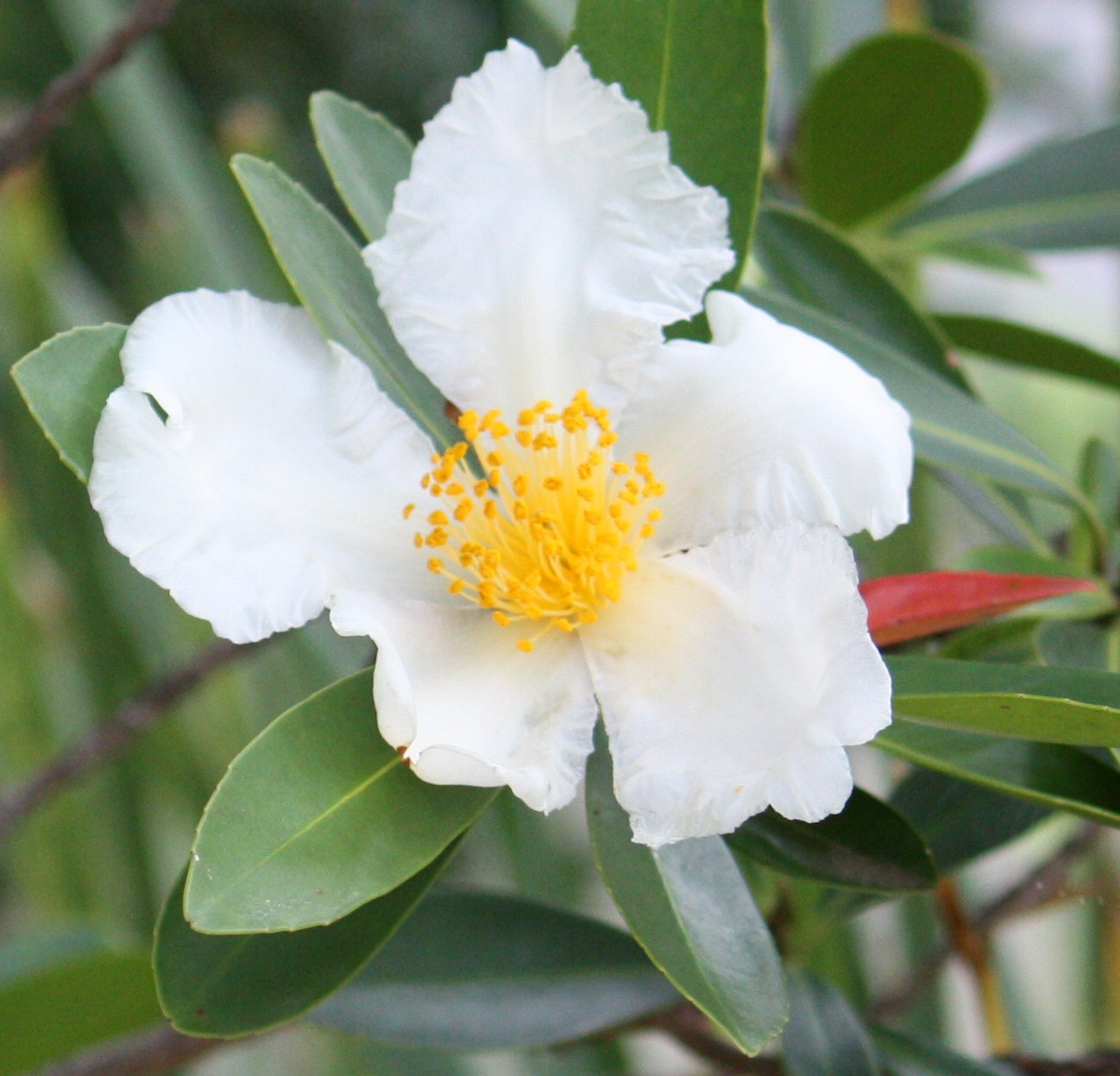 Fried egg flower, Polyspora axillaris (syn. Gordonia axillaris).